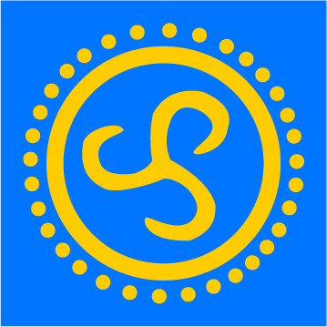 Rodzima Wiara (związek wyznaniowy)